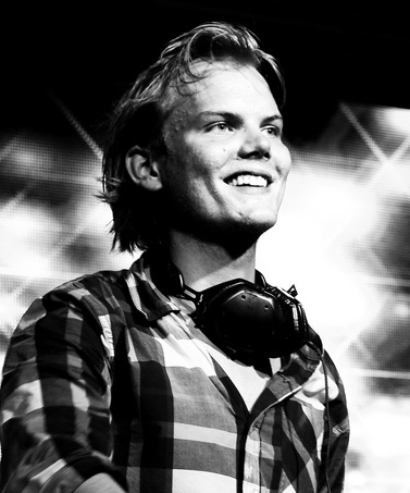 UWO O-Week finale